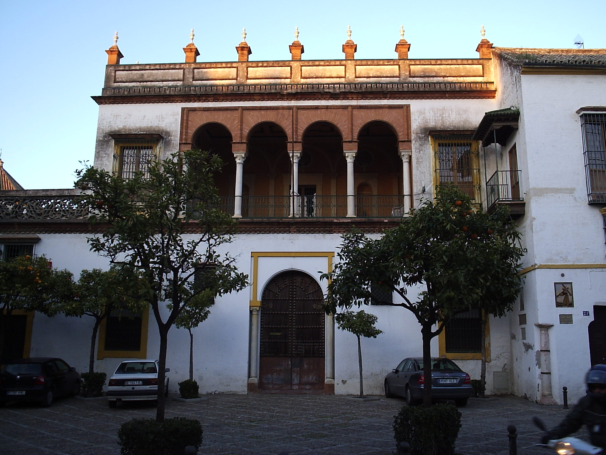 Lateral Casa de Pilatos Origen: Imagen Propia Licencia: GNU Praedo from es, the copyright holder of this work, hereby publishes it under the following license: Attribution: Praedo from es